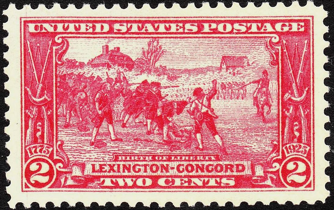 U.S. Postage Stamp depicting Battle at Lexington, modeled from a painting by Henry Sandham